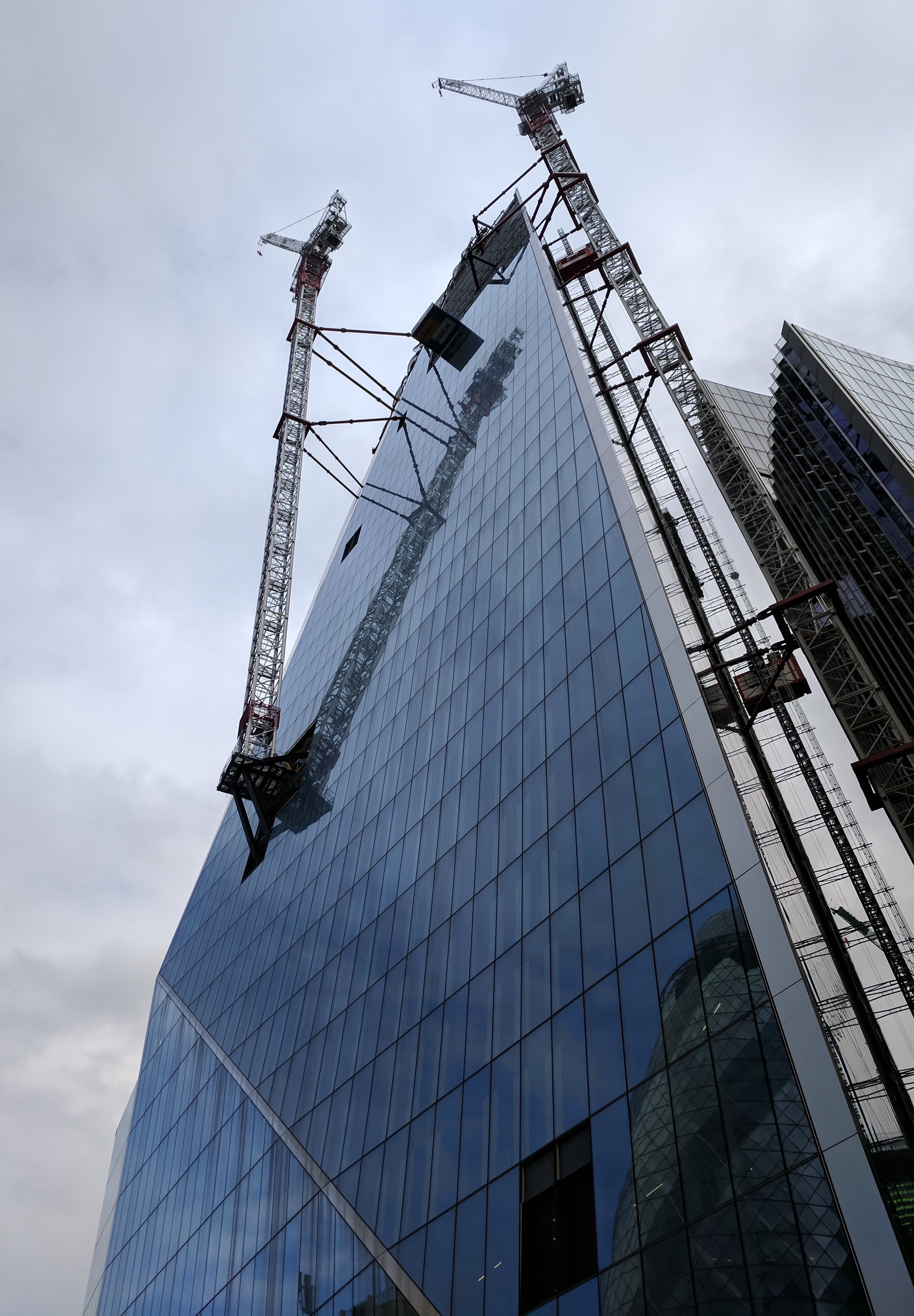 The Scalpel. Yet another skyscraper in London with the title "The X" nears completion. "The Gherkin" (aka 30 St Mary Axe can be seen in reflection. I was quite impressed by the crane jutting from midway up.